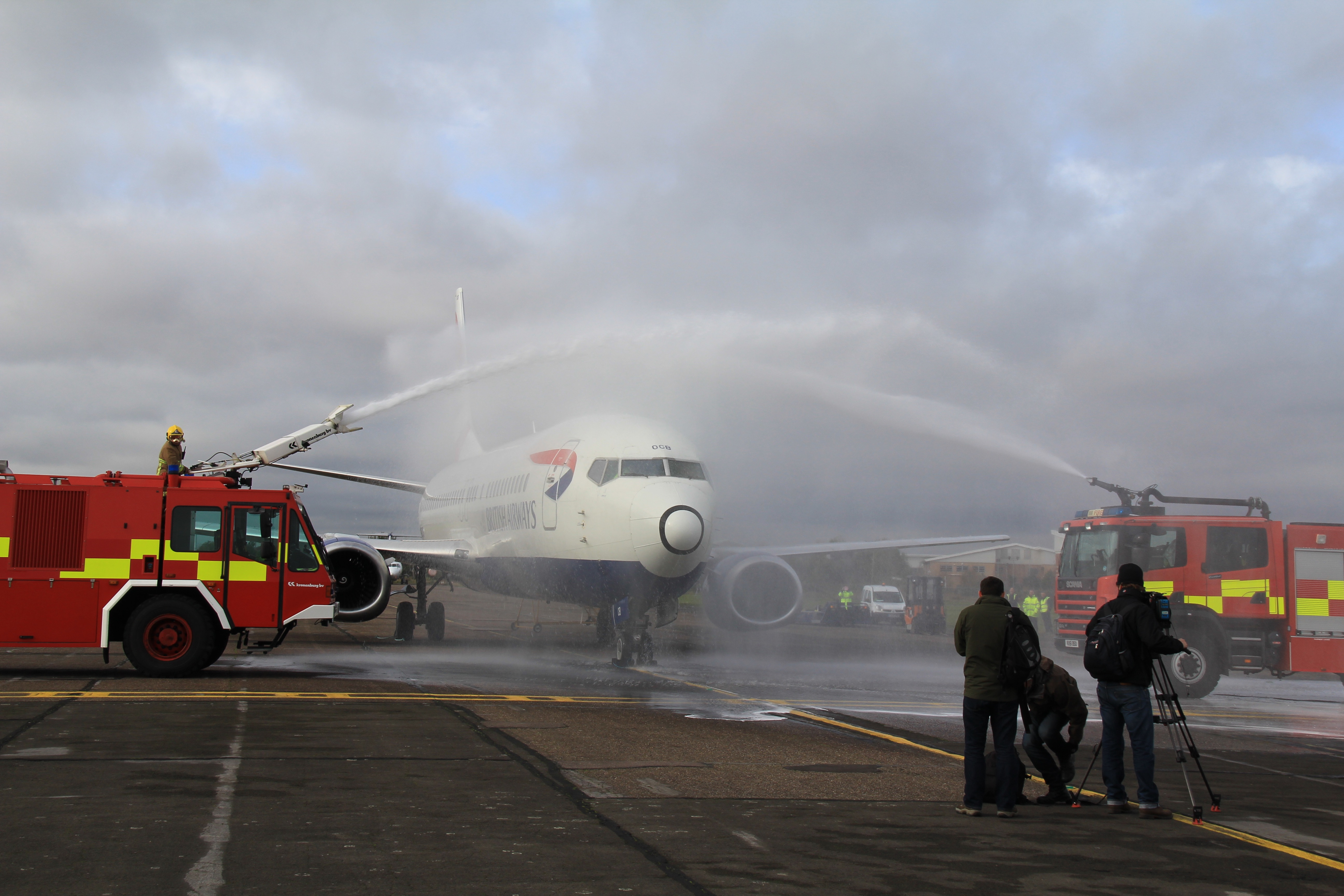 British Airways kindly donated Boeing 737-436 G-DOCB to Cranfield University for use in teaching and research